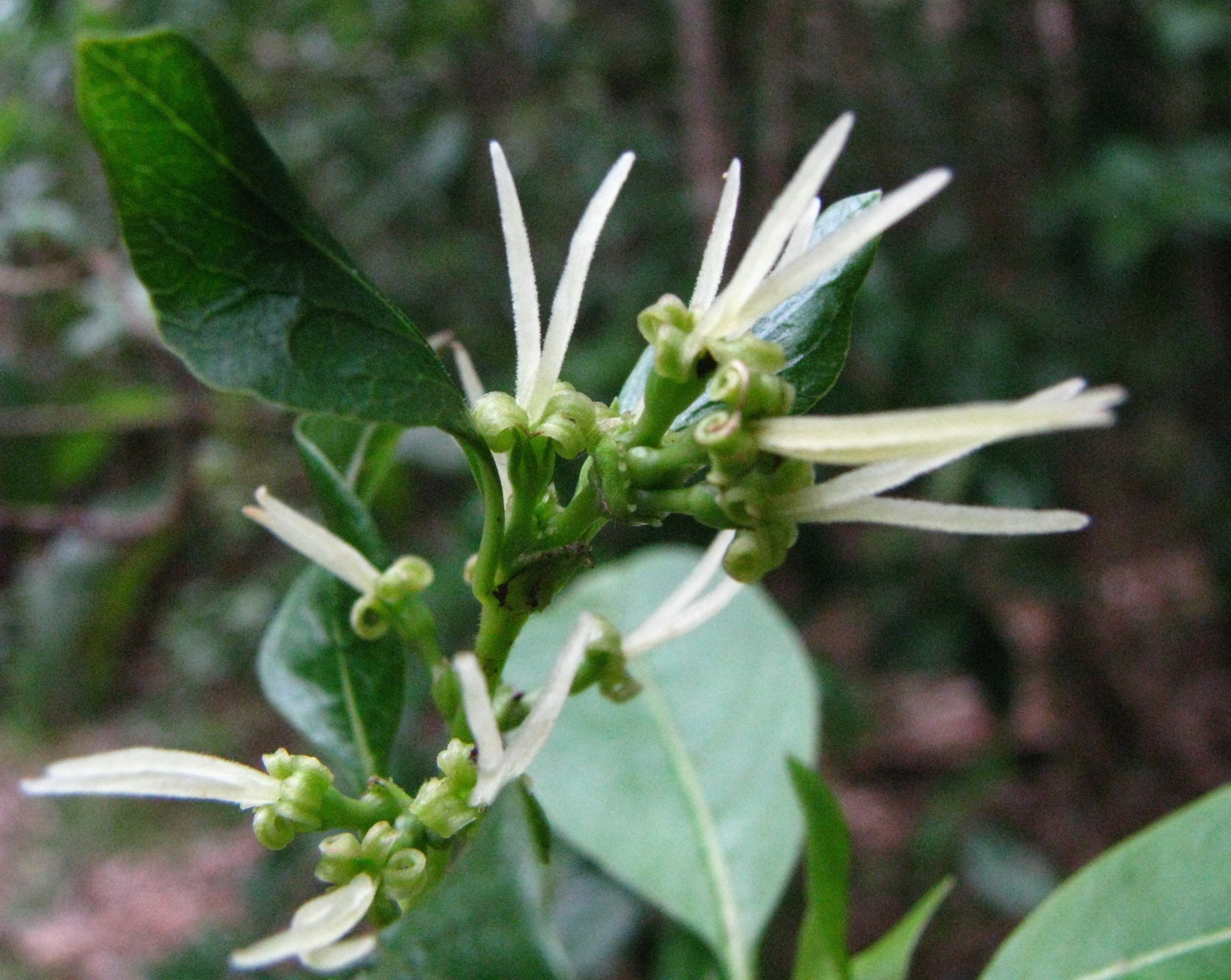 Pilo or Woodland mirrorplant Rubiaceae Endemic to the Hawaiian Islands (Hawaiʻi Island only) Kīpukapuala, Hawaiʻi Island Pistillate (female) flowers and unripe fruit